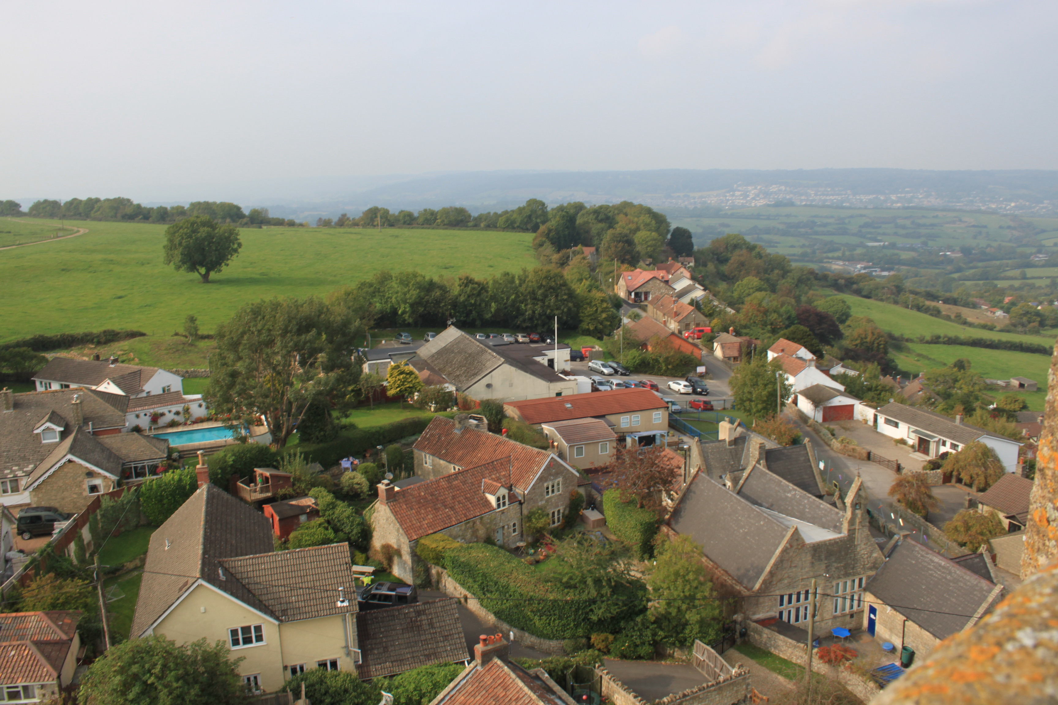 View of Dundry taken from the church tower